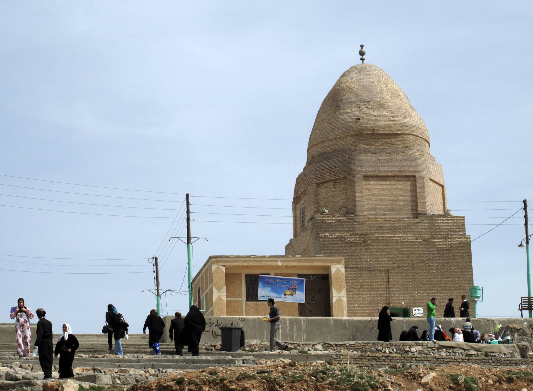 Tomb of Wais is a sacred and holy shrine on the top of a mountain with same name in northwest of Kermanshah. The building dates back to Seljuq period (between 11th to 14th centuries). People believe that the tomb belong to one companion of prophet Mohammad who was buried here on top of the mountain. But origin of the name Wais or Waise is Sassanid and it seems that during that period this mountain was sacred.